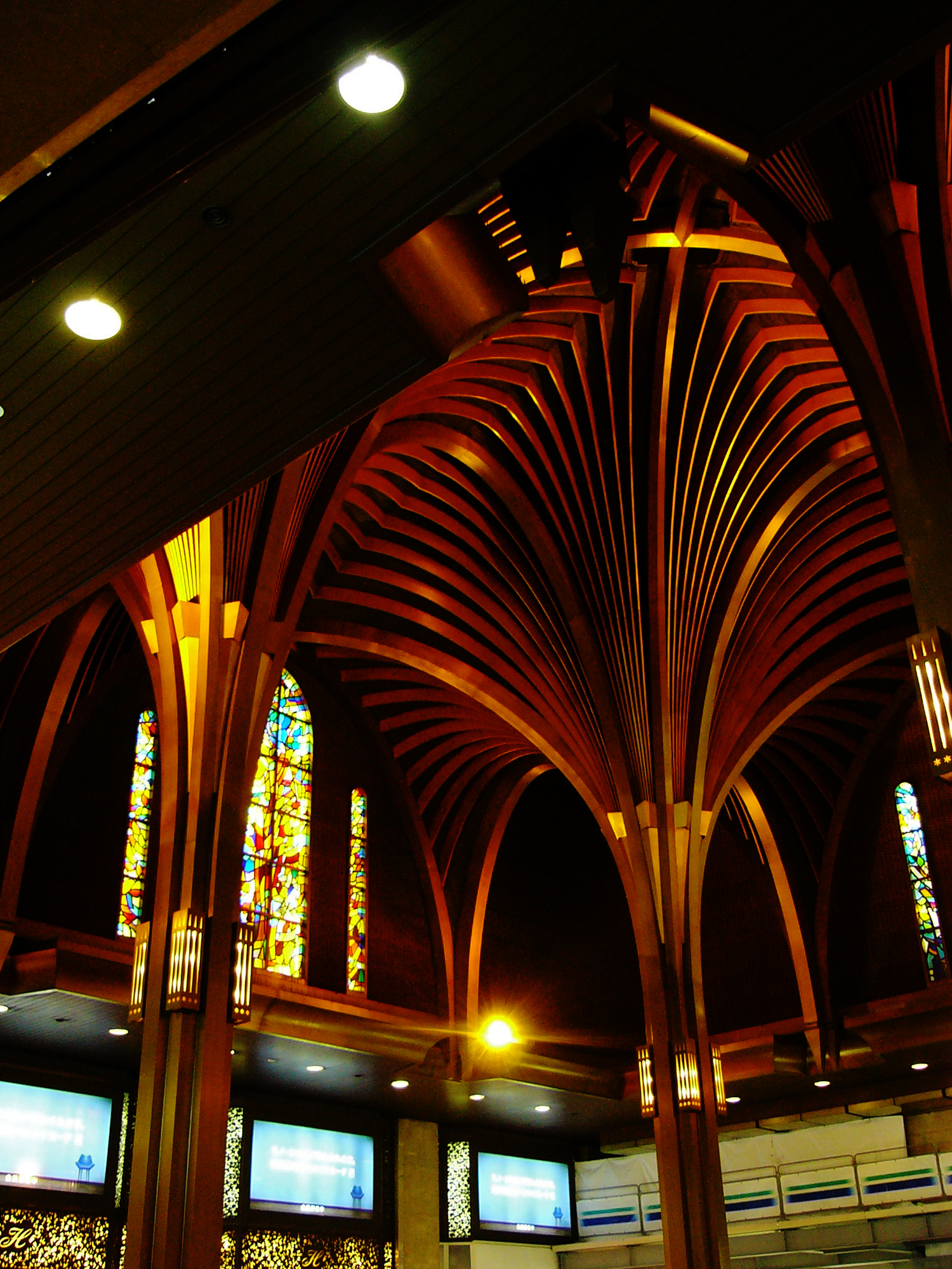 The Baroque Dome in front of Hankyu Department Stores Umeda main store, Osaka, Osaka prefecture, Japan